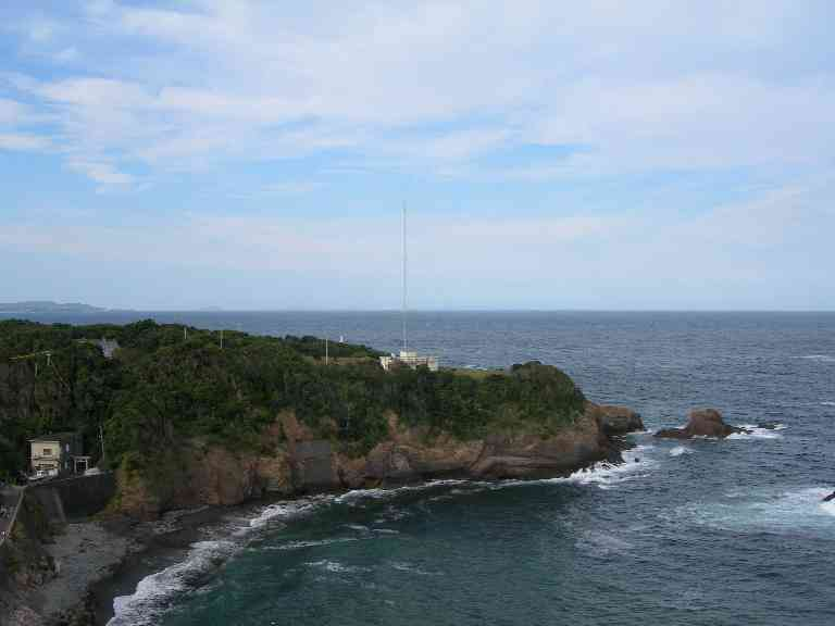 Daiozaki-denpa-todai at Shima city, Mie prefecture Japan.